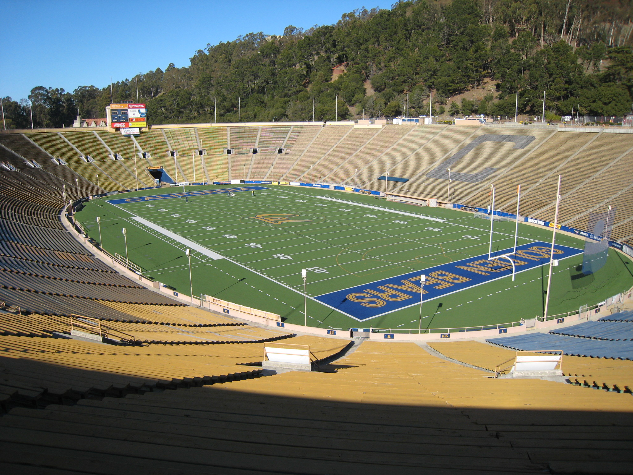 California Memorial Stadium in Berkeley, California.